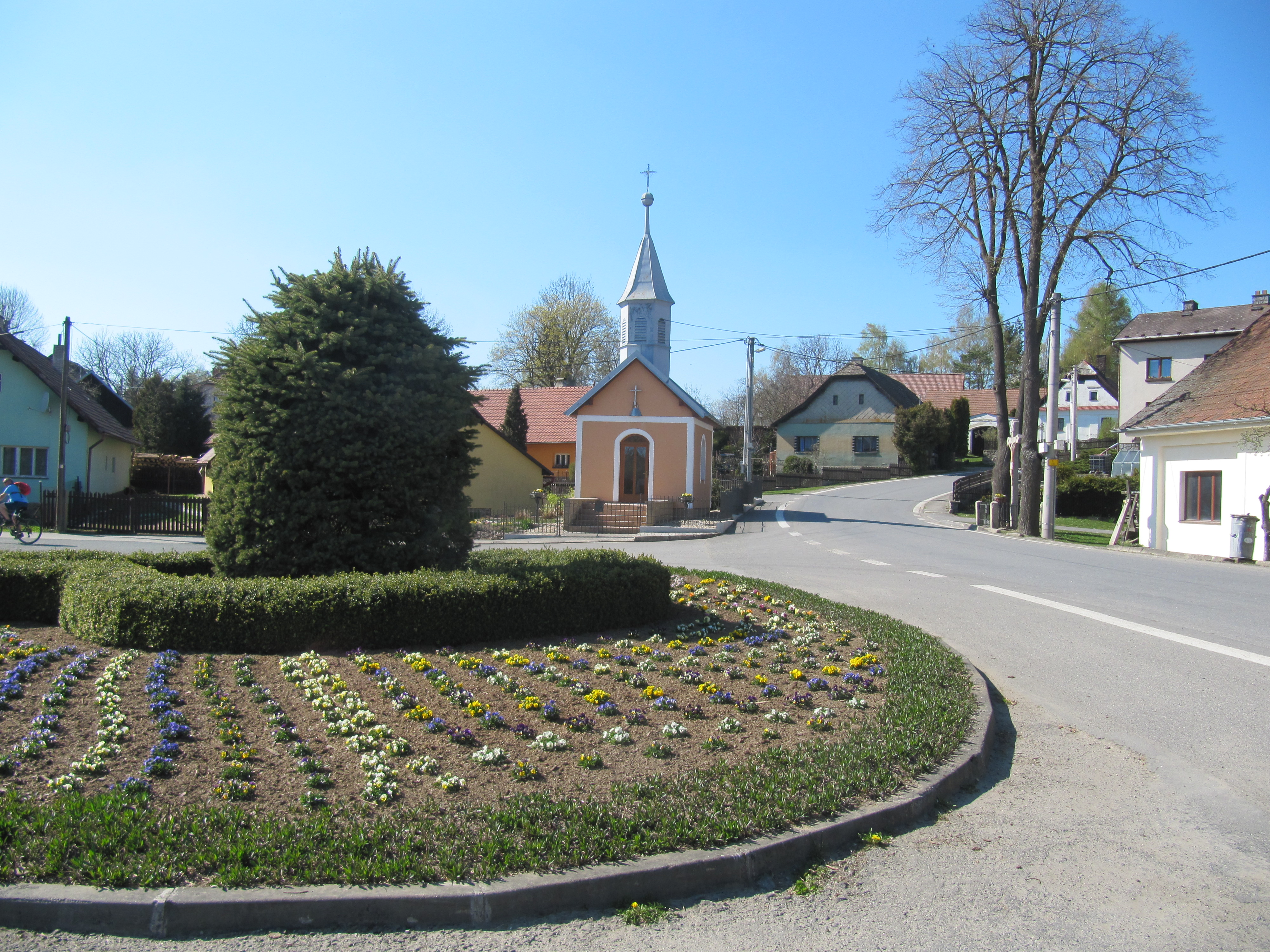 Bohuňov, Žďár nad Sázavou District, Czechia.